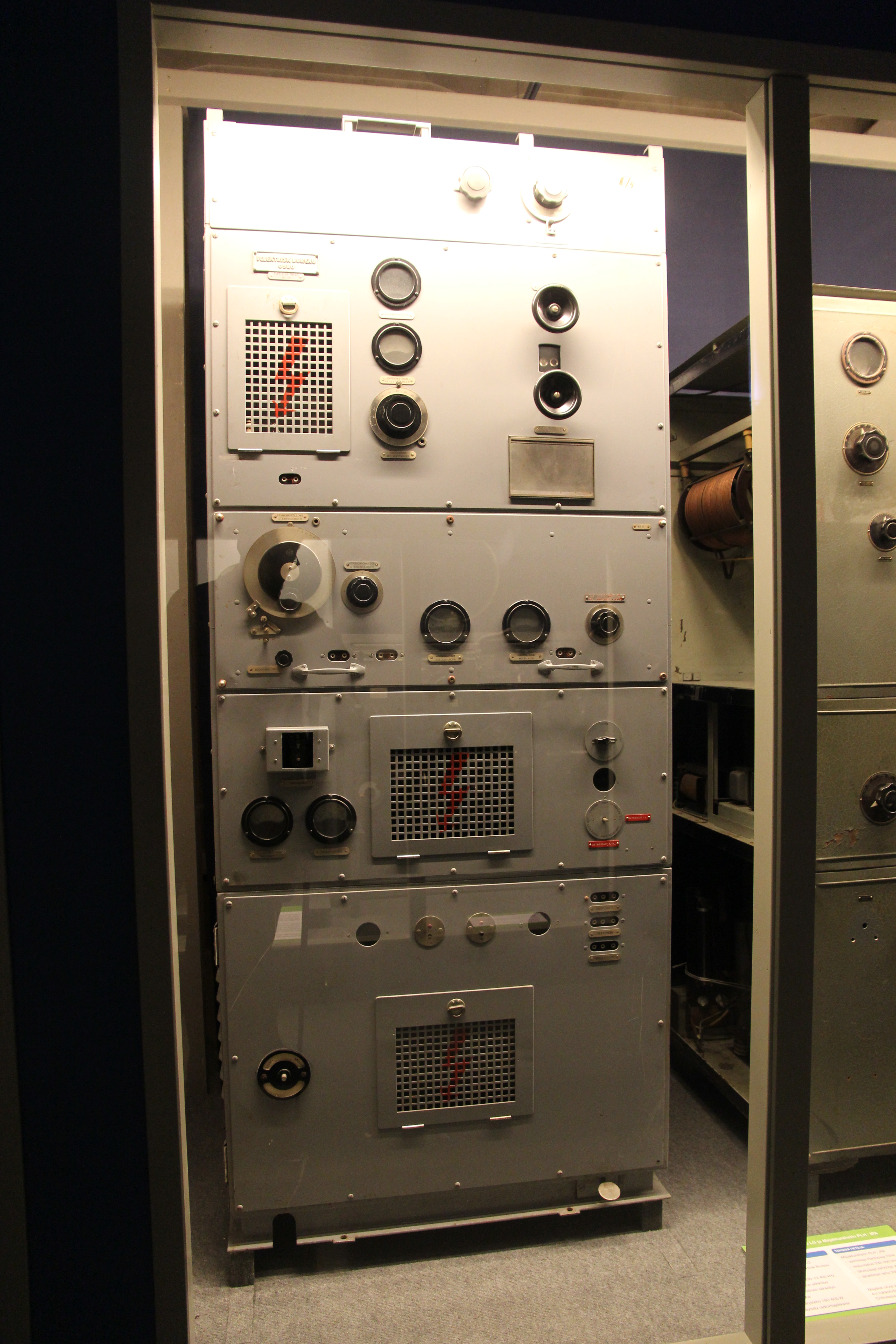 Norwegian 1-SS-500 LG radio transmitter manufactured by As Elektrisk Bureau in 1942. Used as a radio beacon in Finland. Photographed in the Finnish Air Force signals museum.